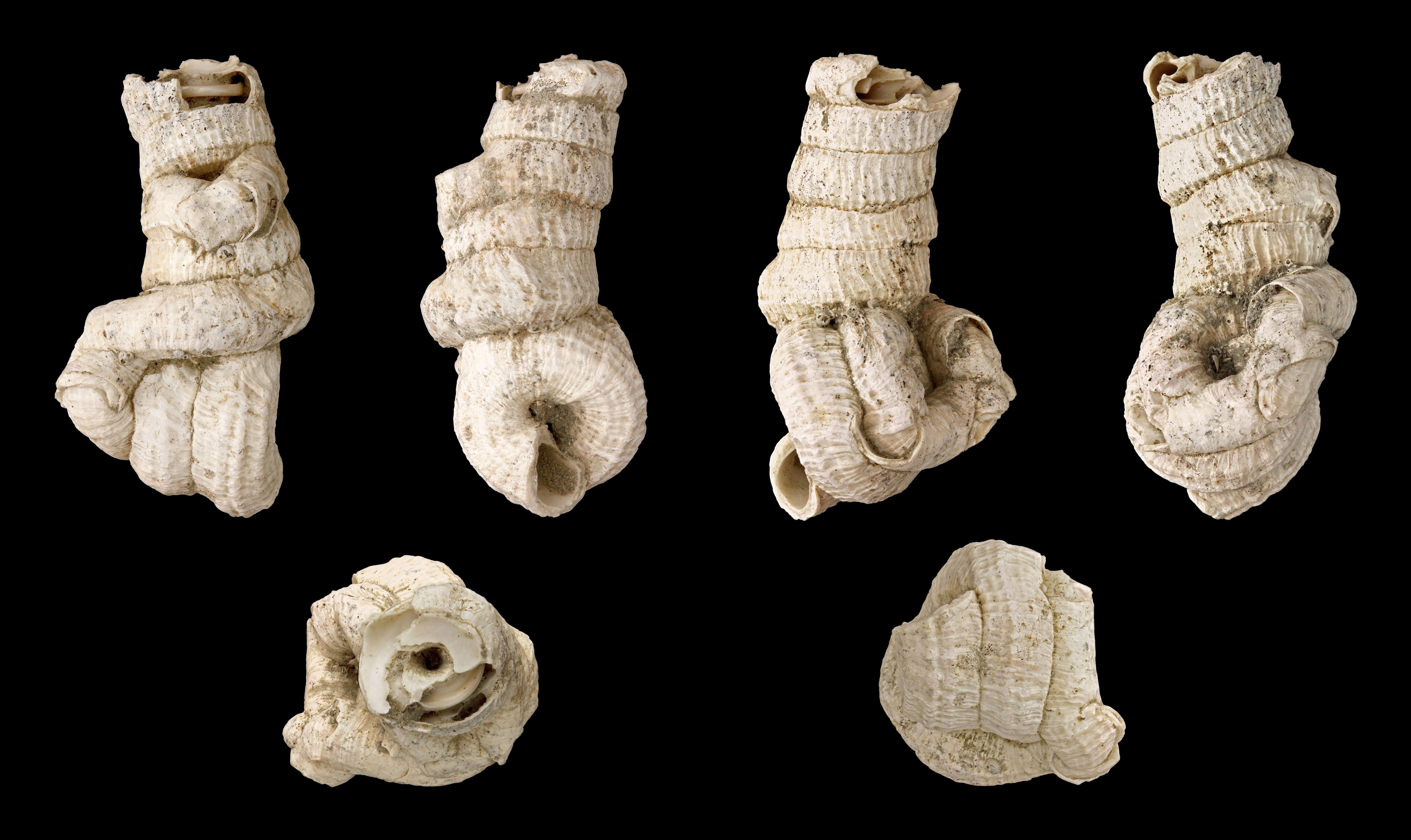 Length 2.9 cm; Pliocene, Baschi, Italy; Shell of own collection, therefore not geocoded.